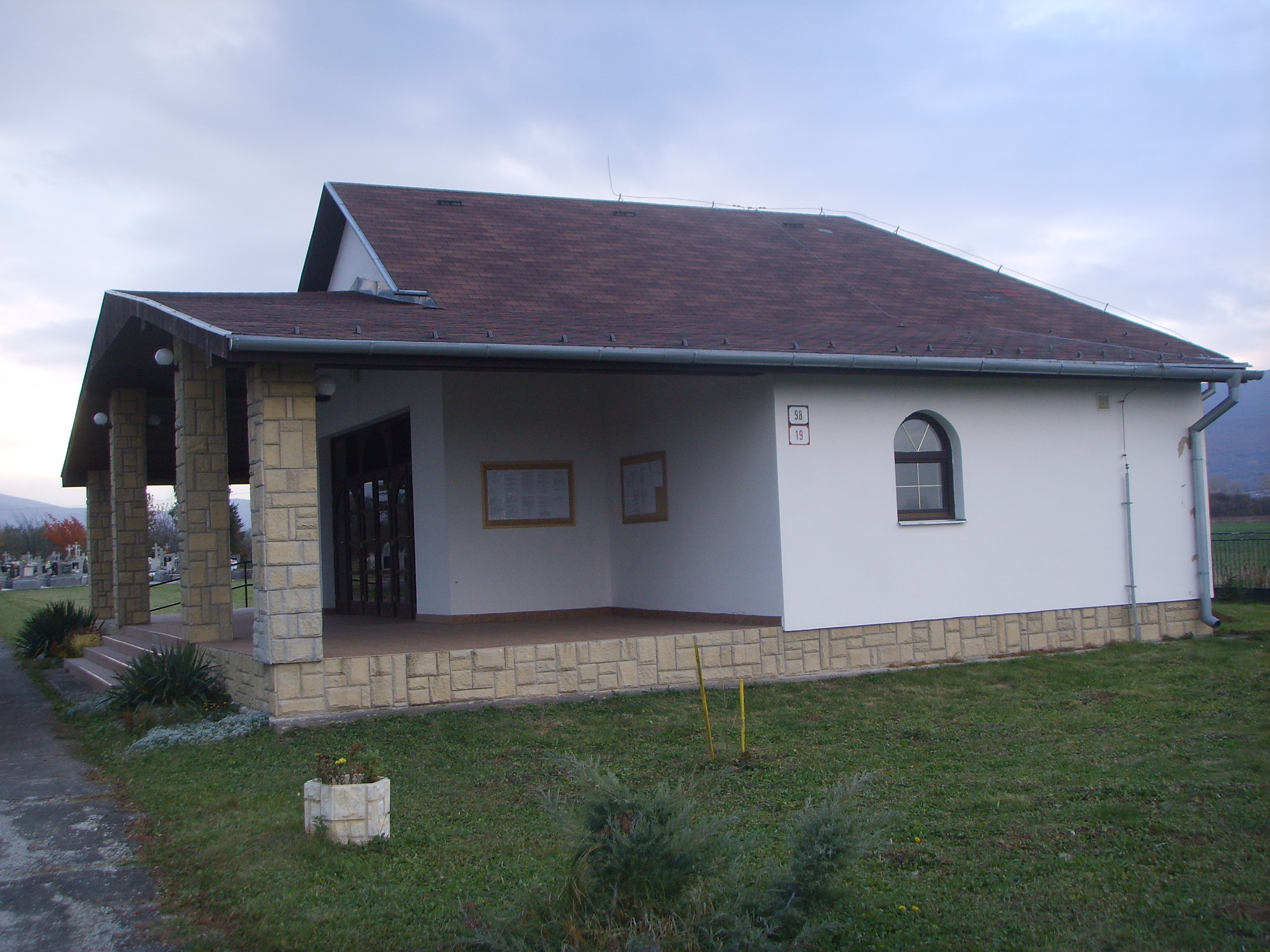 Mortuary chapel in Višňov, district Trebišov, Slovakia